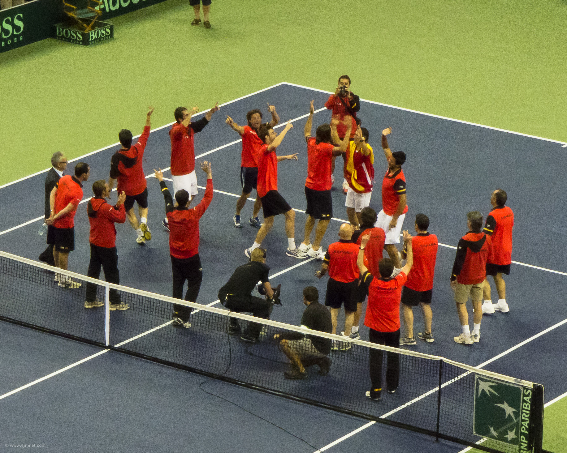 Spain celebrate their quarter final win over the USA in the 2011 Davis Cup at Austin in Texas.